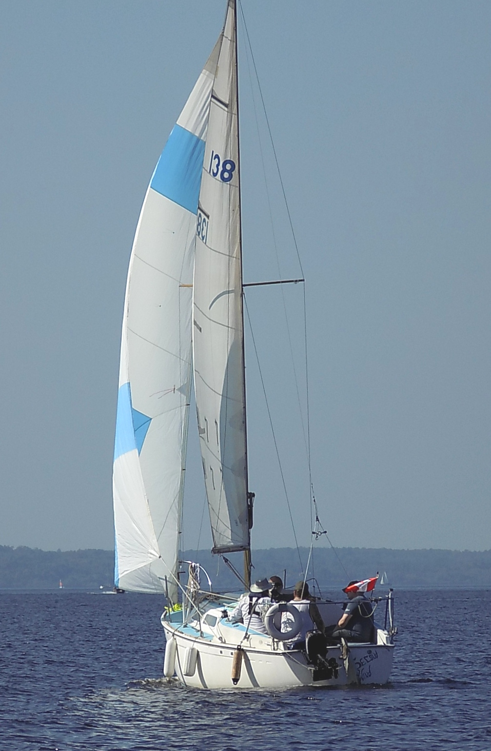 A Paceship PY 23 sailboat named Second Wind.